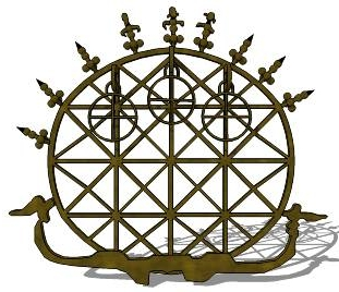 2D picture of a 3D art work of Hittite Sun Disk (or Symbol)